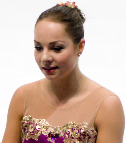 2010 Cup of Russia, free skating.